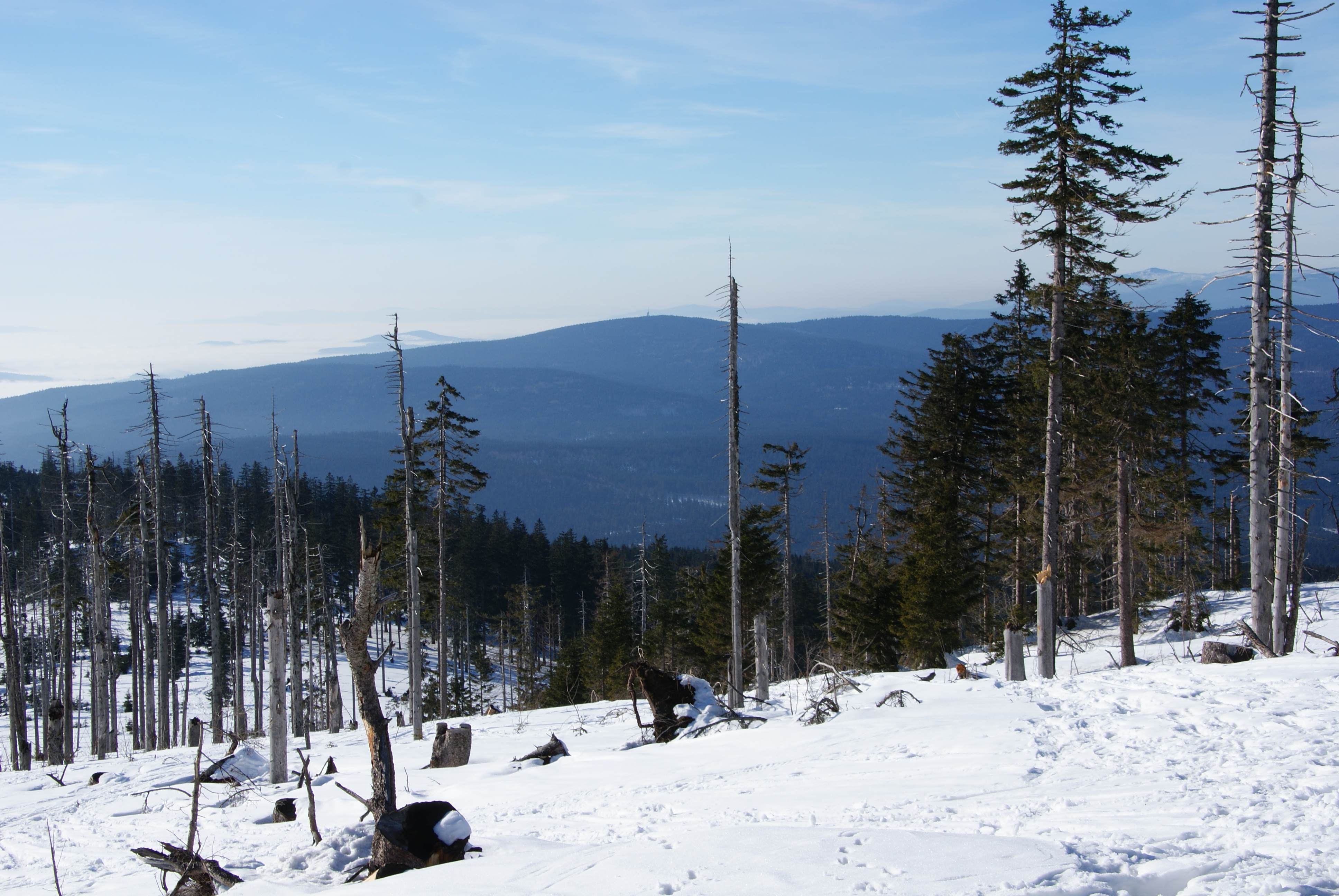 Summit region of the Dreisesselberg in the Bavarian Forest